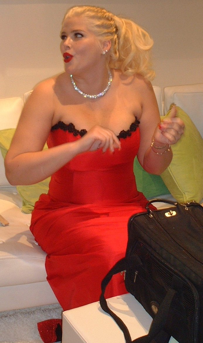 Anna Nicole Smith at the 2003 E3